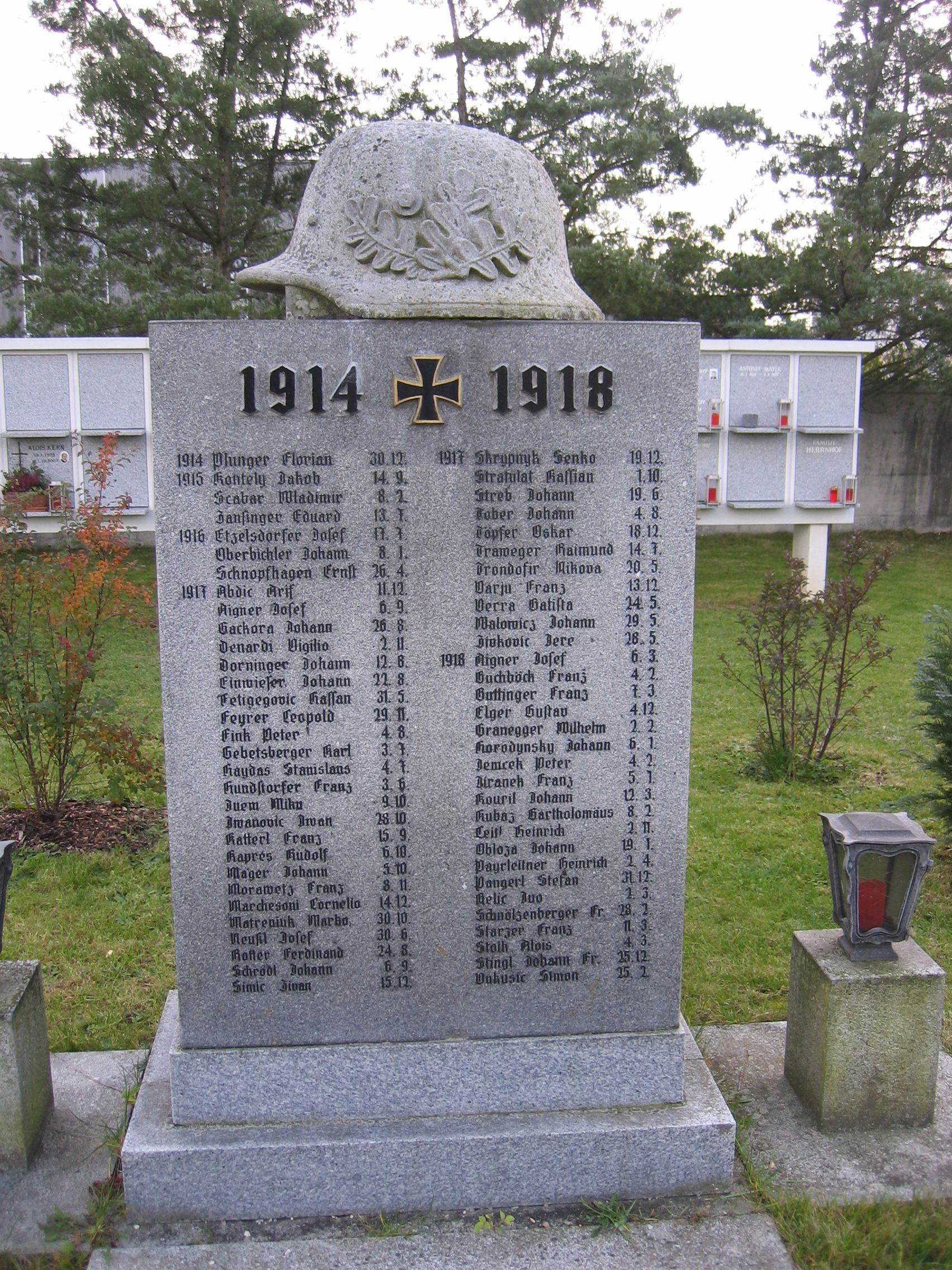 Monument for Soldiers in World War 1